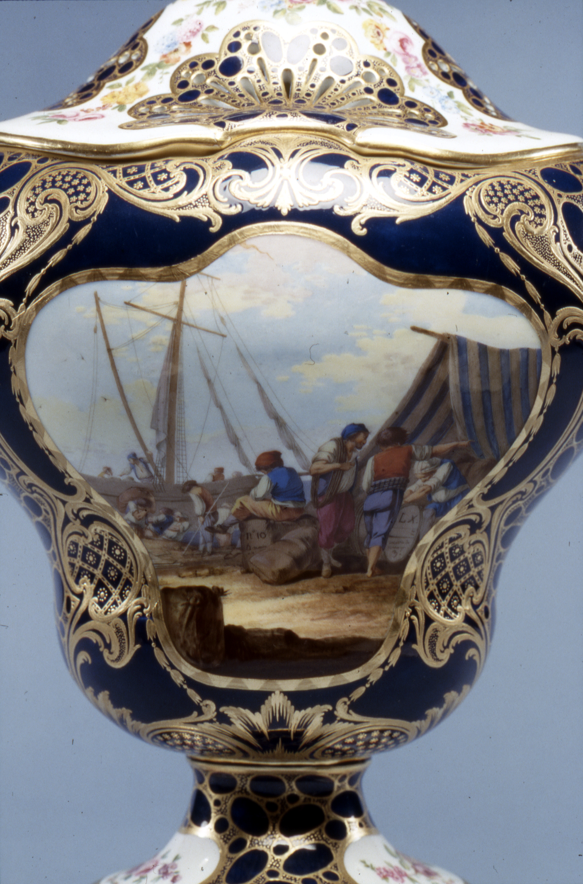 The model for this vase, still preserved at the Sèvre manufactory, is labeled "vase à cartels, modèle de Hébert" (T. J. Hébert was an 18th-century art dealer). The harbor scene is by J. L. Morin. The "bleu lapis" ground color has been gilded in a "caillouté," or pebbled pattern.